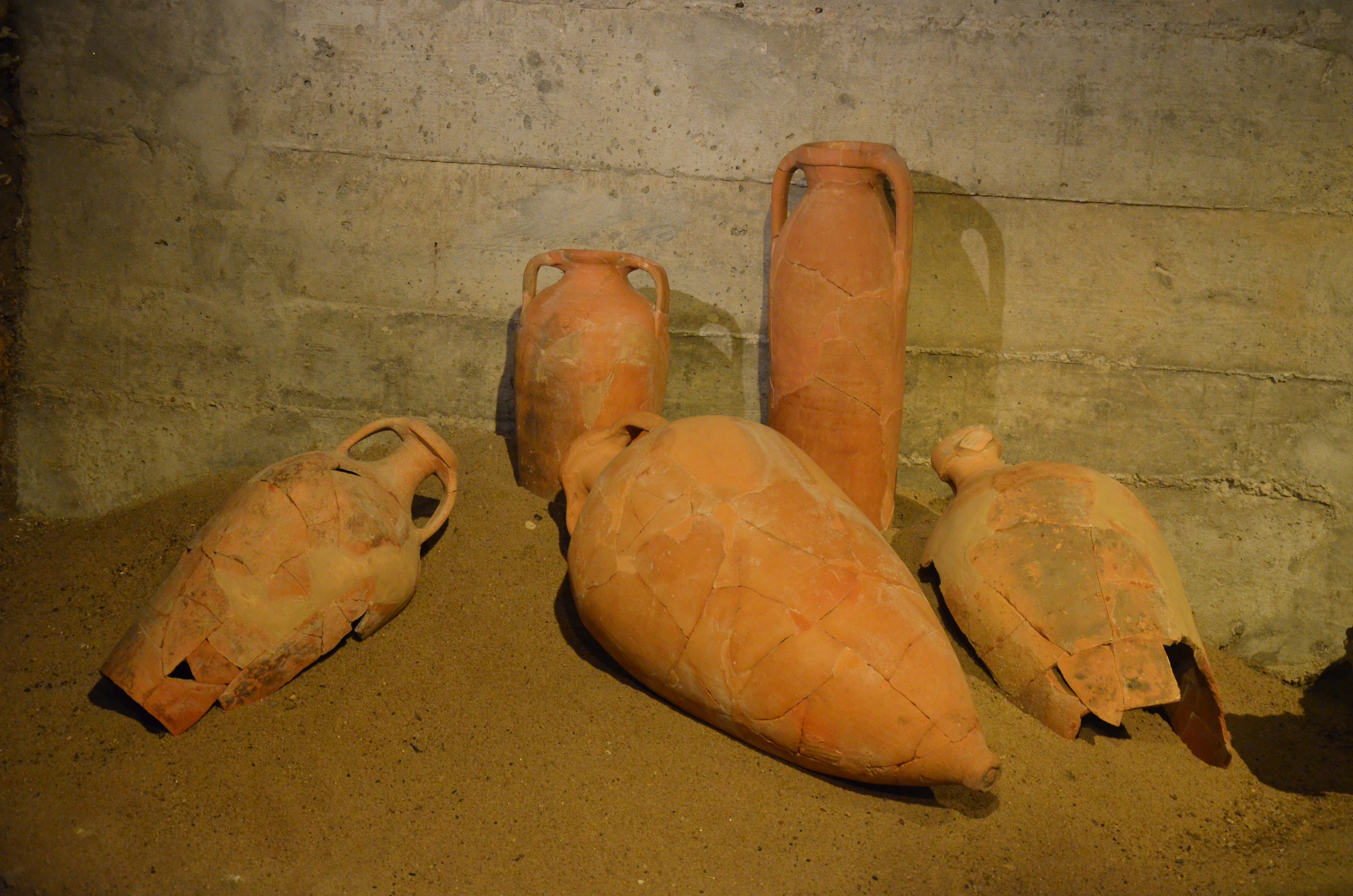 The Roman garum factory of Olisipo, Lisbon